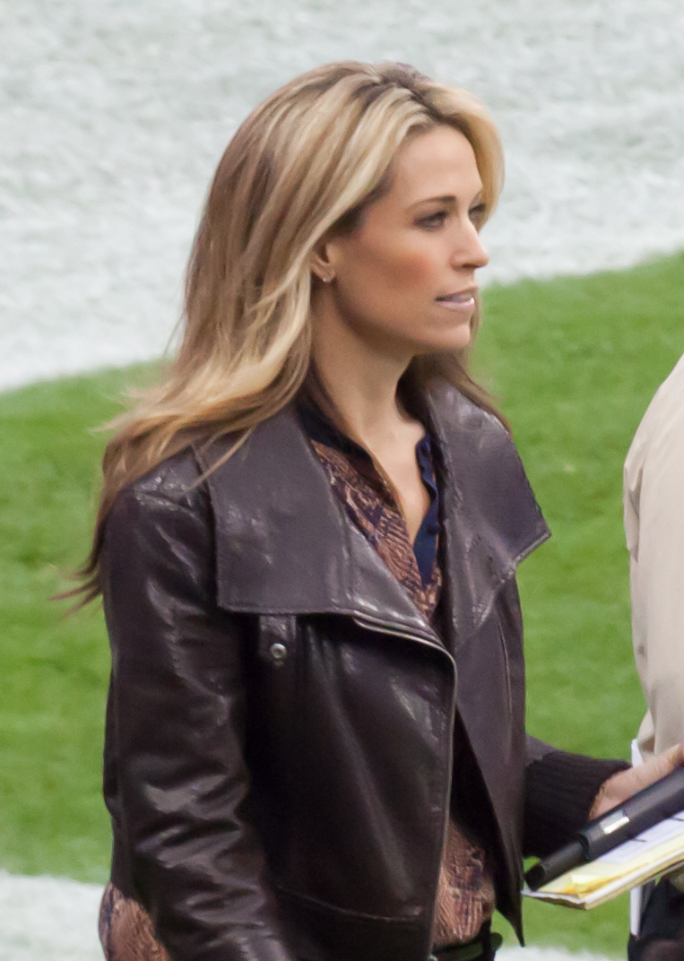 Image of Alex Flanagan covering the Houston Texans versus Bengals NFL Wildcard Playoff game in Reliant Stadium in Houston Texas on January 5, 2013.